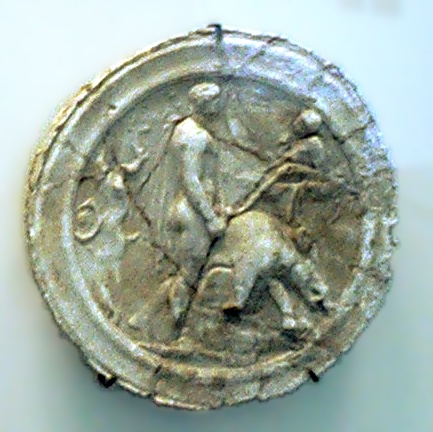 Begram artwork, plaster mold. Musée Guimet, personal photograph 2004. Released in the Public Domain.